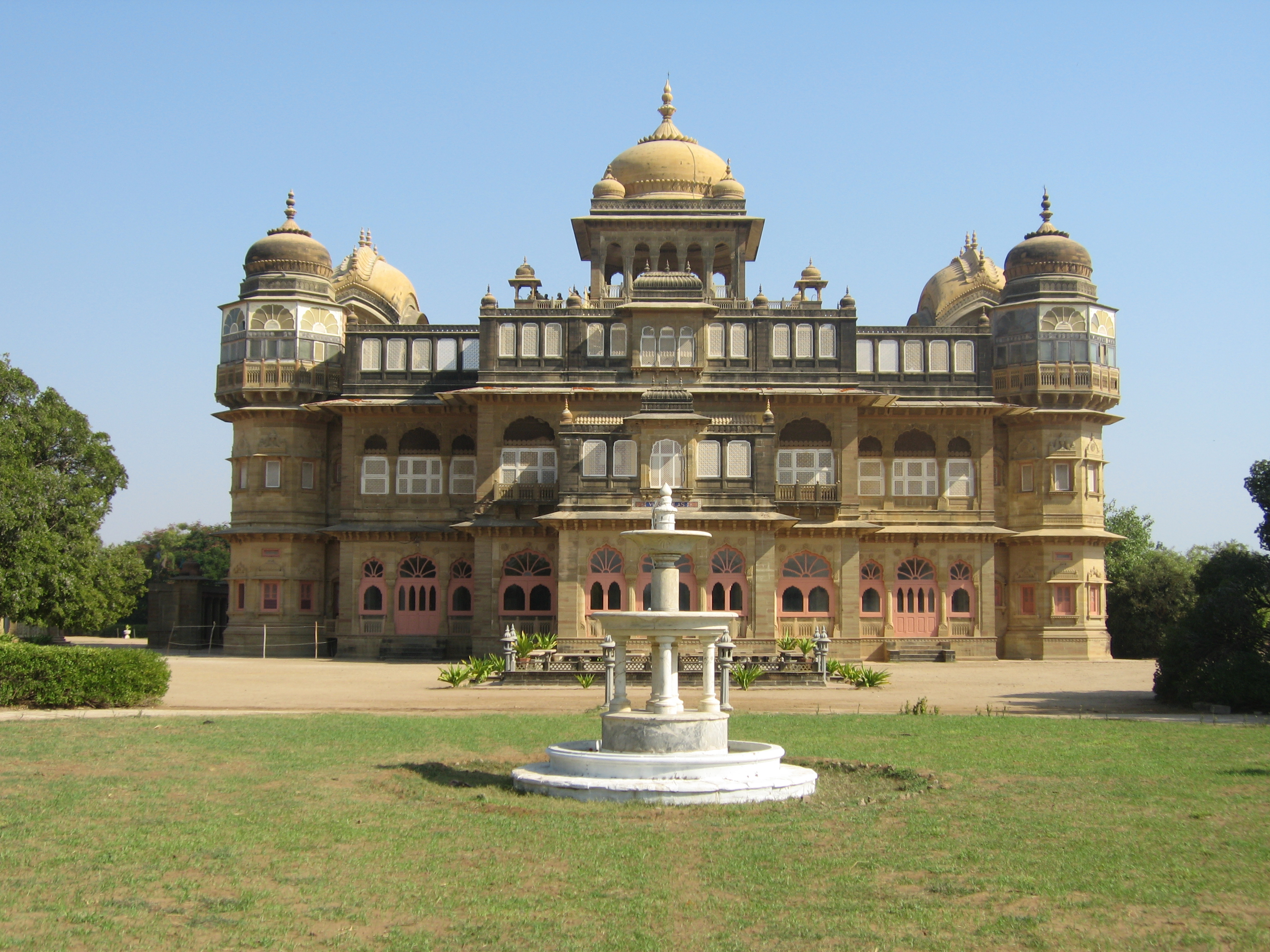 Vijay Vilas Palace in 2009